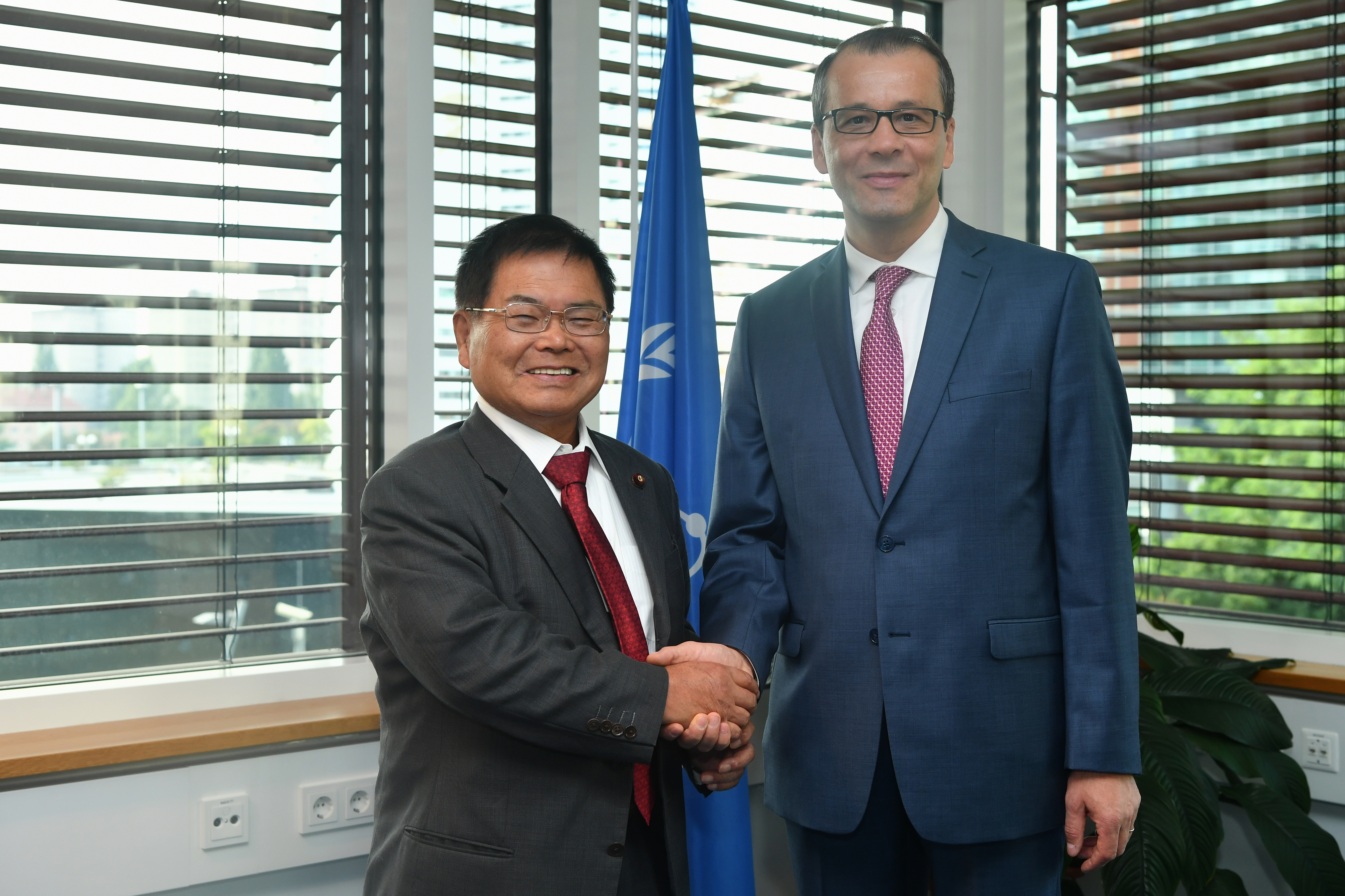 Bilateral meeting between HE Mr Naokazu Takemoto, Minister of State for Science and Technology Policy of Japan and Cornel Feruta, IAEA Acting Director General at the IAEA 63rd General Conference. IAEA, Vienna, Austria. 16 September 2019. Photo Credit: Dean Calma / IAEA